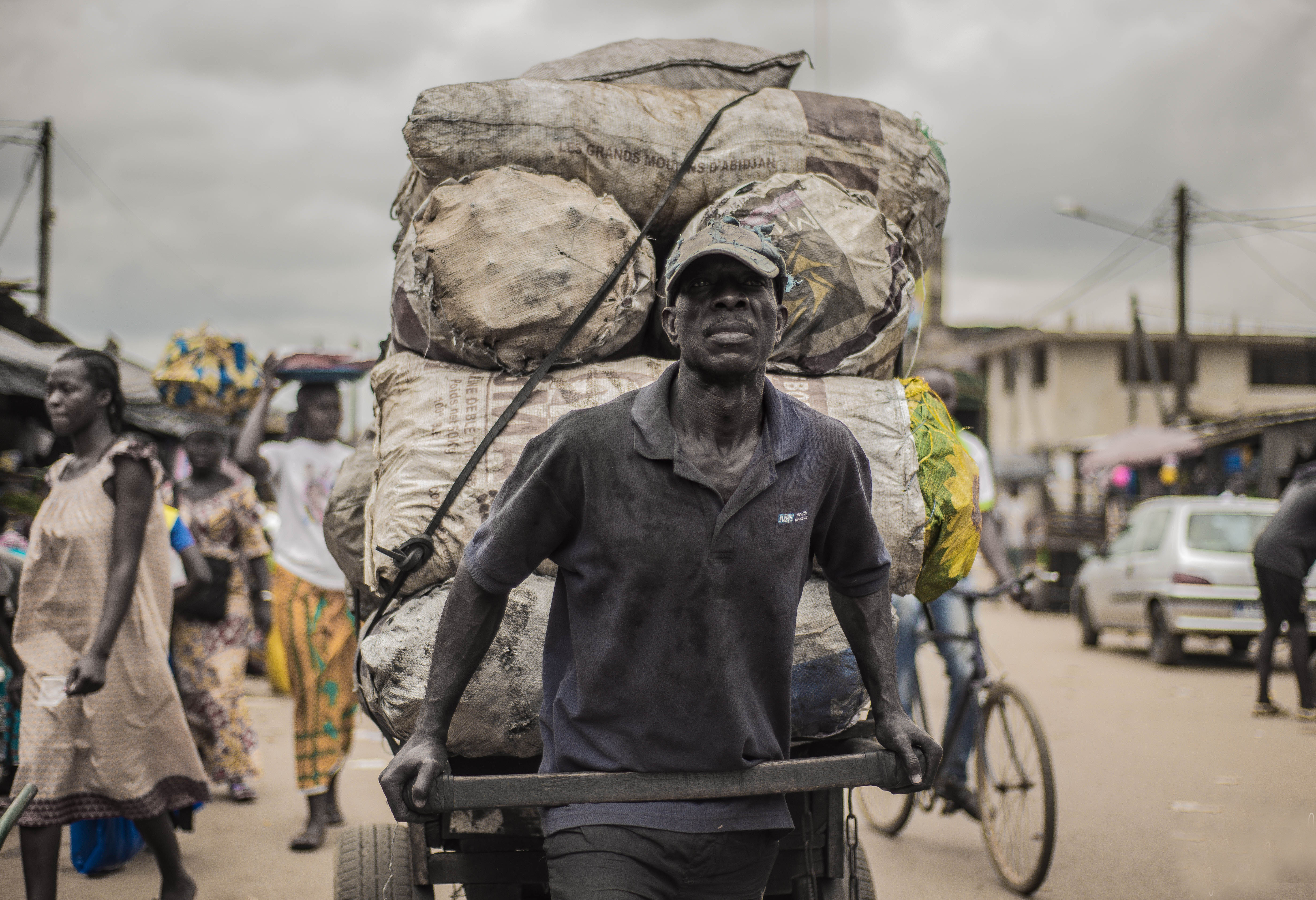 Un personne transportant des sacs de bananes This is an image with the theme "Africa on the Move or Transport" from: Ivory Coast